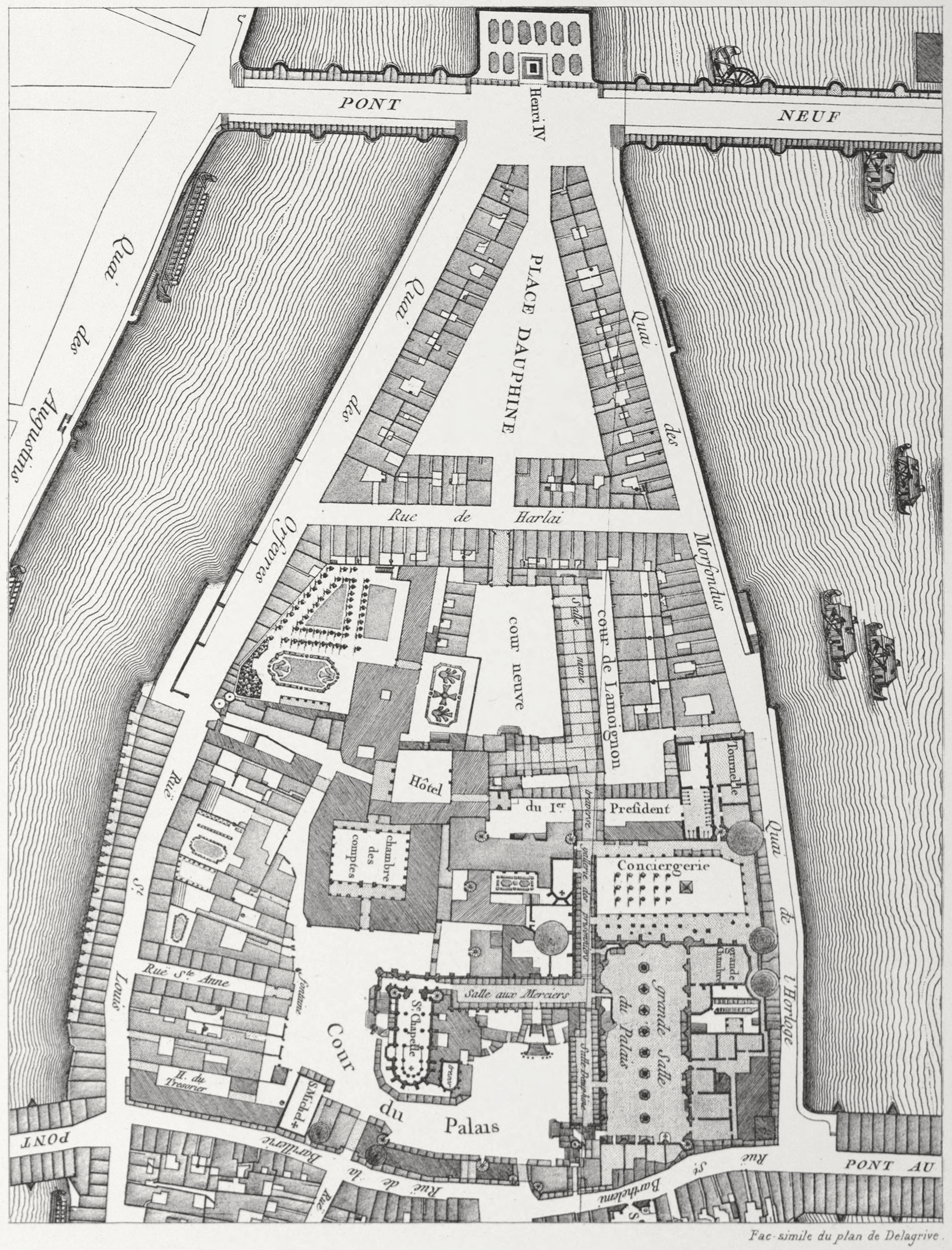 Plans of the Ile de la cité from the Palais de Justice to the Place Dauphine. There are two views: the one on the left shows the area in 1380; the one on the right shows the area in 1754. The overlay also shows the same area; on the left in 1878, on the right in 1835.